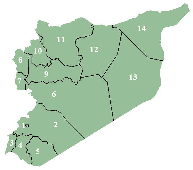 Administrative divisions of Syria.